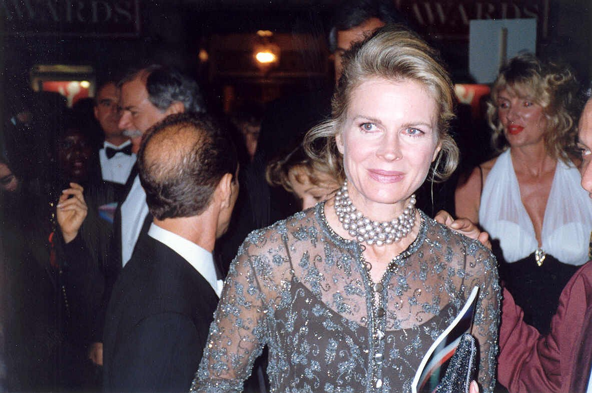 Candice Bergen at the 45th Emmy Awards 9/19/93- Governor's Ball